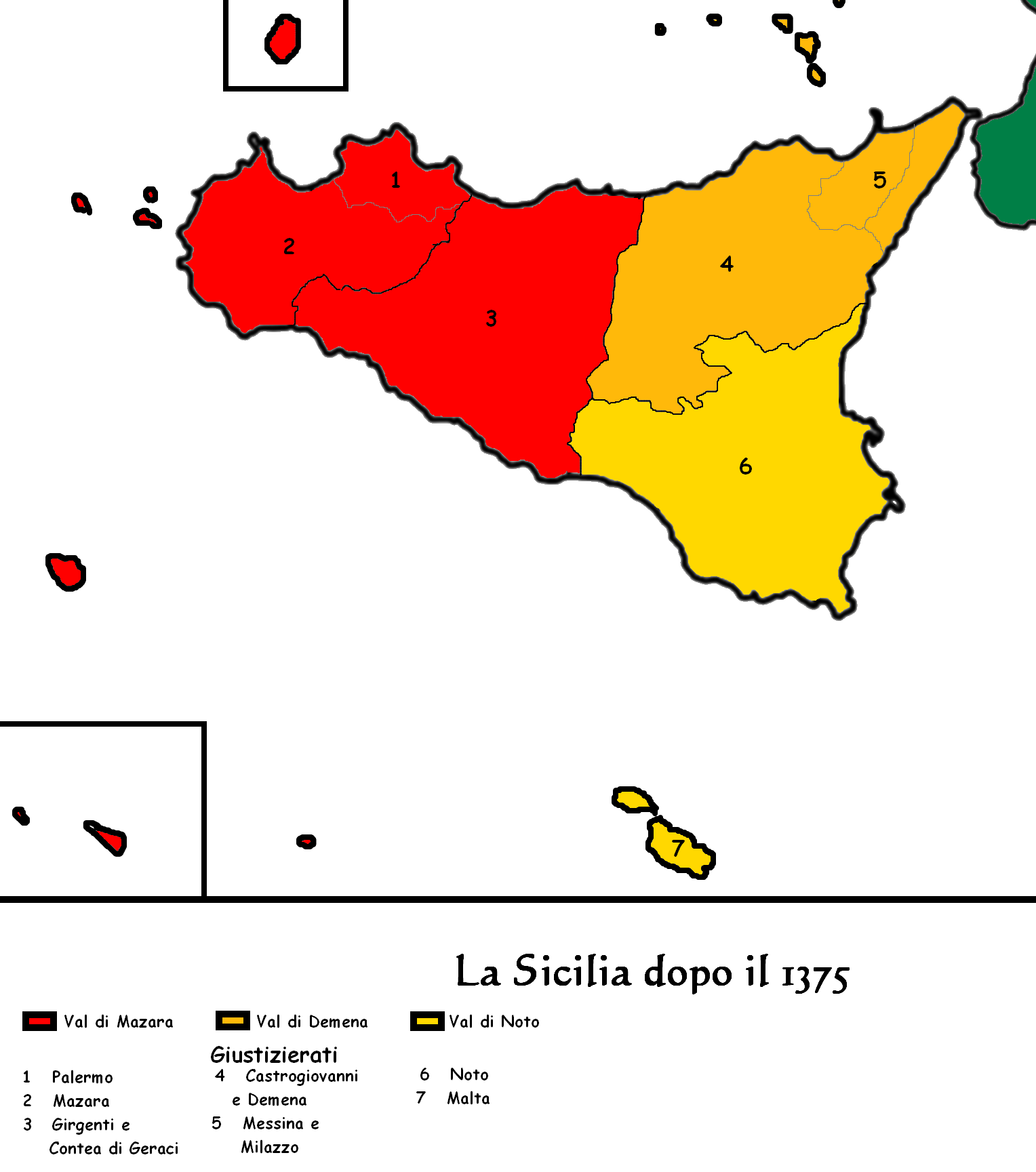 Administrative Map of Sicily during the Aragona kingdom. Source: Marrone, Antonino (aprile 2011). Circoscrizioni amministrative, compiti e reclutamento dei giustizieri siciliani dal 1282 al 1377. Mediterranea. Ricerche storiche (n. 21): pp. 17-50.